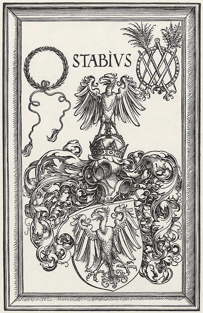 Coats of arms of Johann Stabius